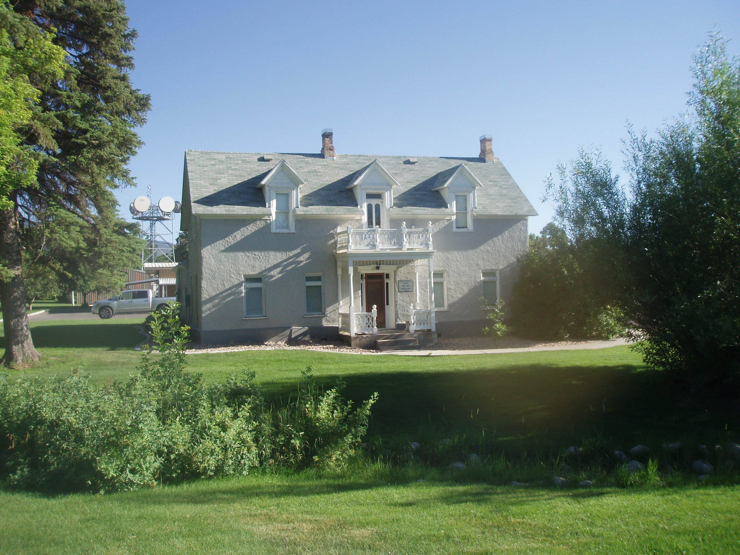 The Hans A. Hansen House, a historic home in Ephraim, Utah, United States.